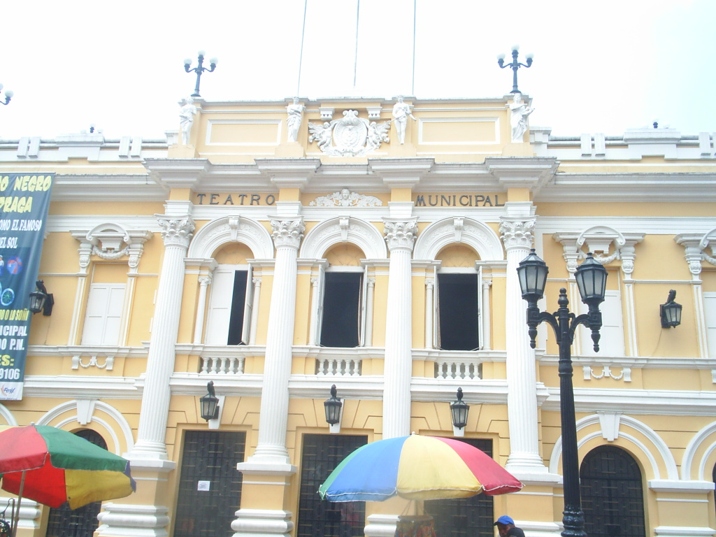 Front of the Municipal Theater Enrique Buenaventura